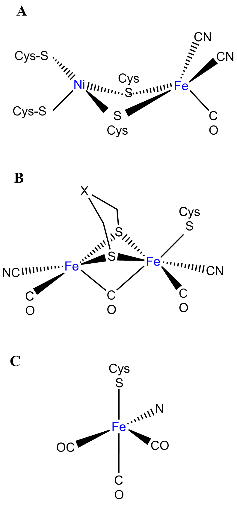 Structures of the active sites containing metal atoms